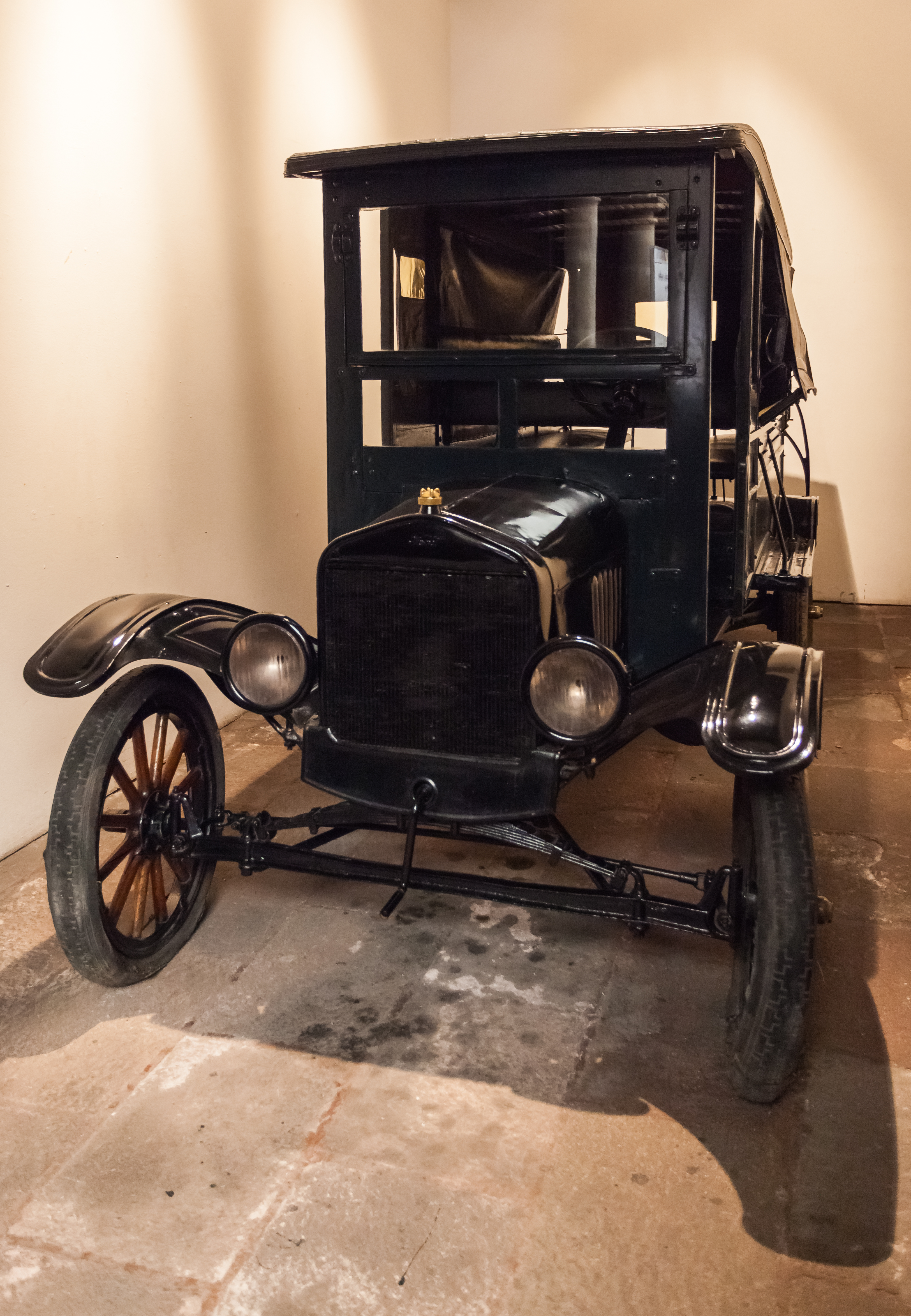 Museum of the City of Mexico, México D.F., México